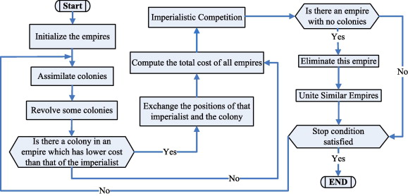 This image shows the flowchart of standard Imperialist Competitive Algorithm (ICA)